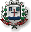 Brasão de Areiópolis